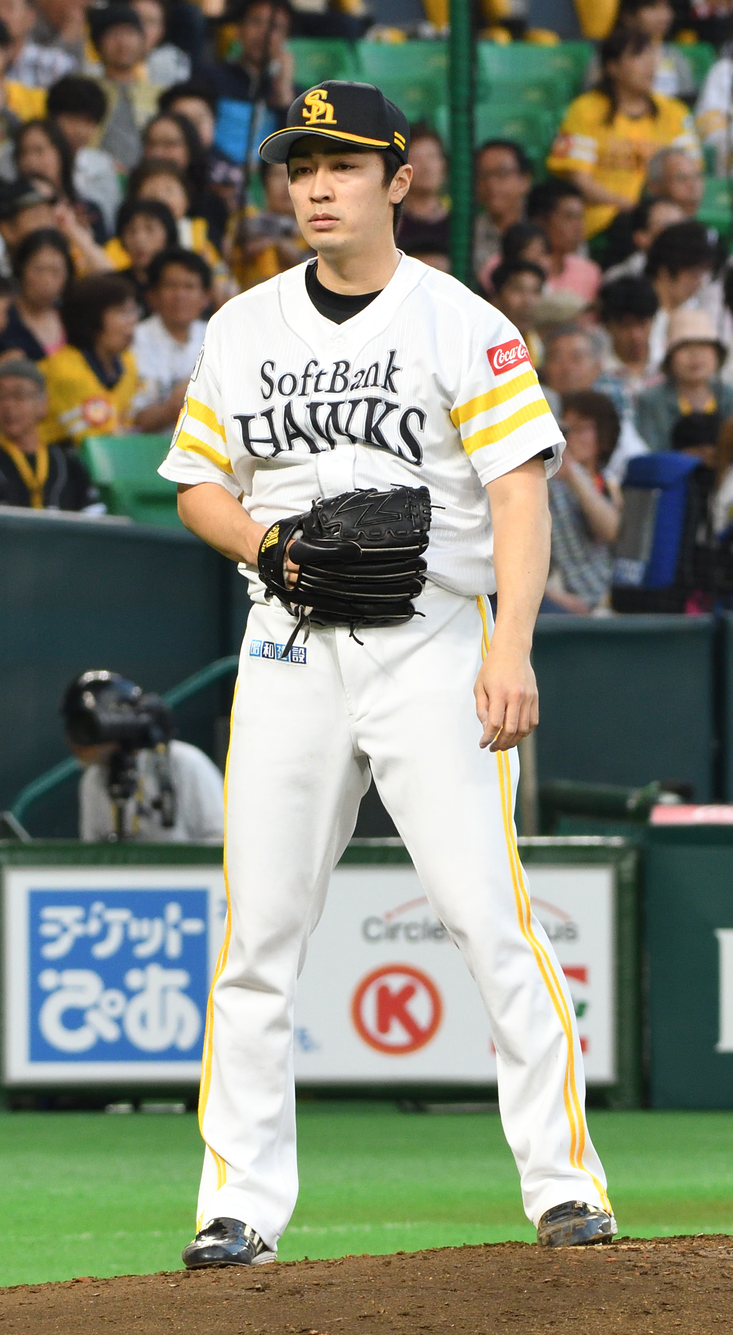 Tsuyoshi Wada, pitcher of the Fukuoka SoftBank Hawks, at Fukuoka Dome.